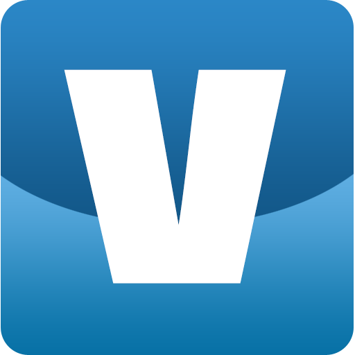 VAVEL logo